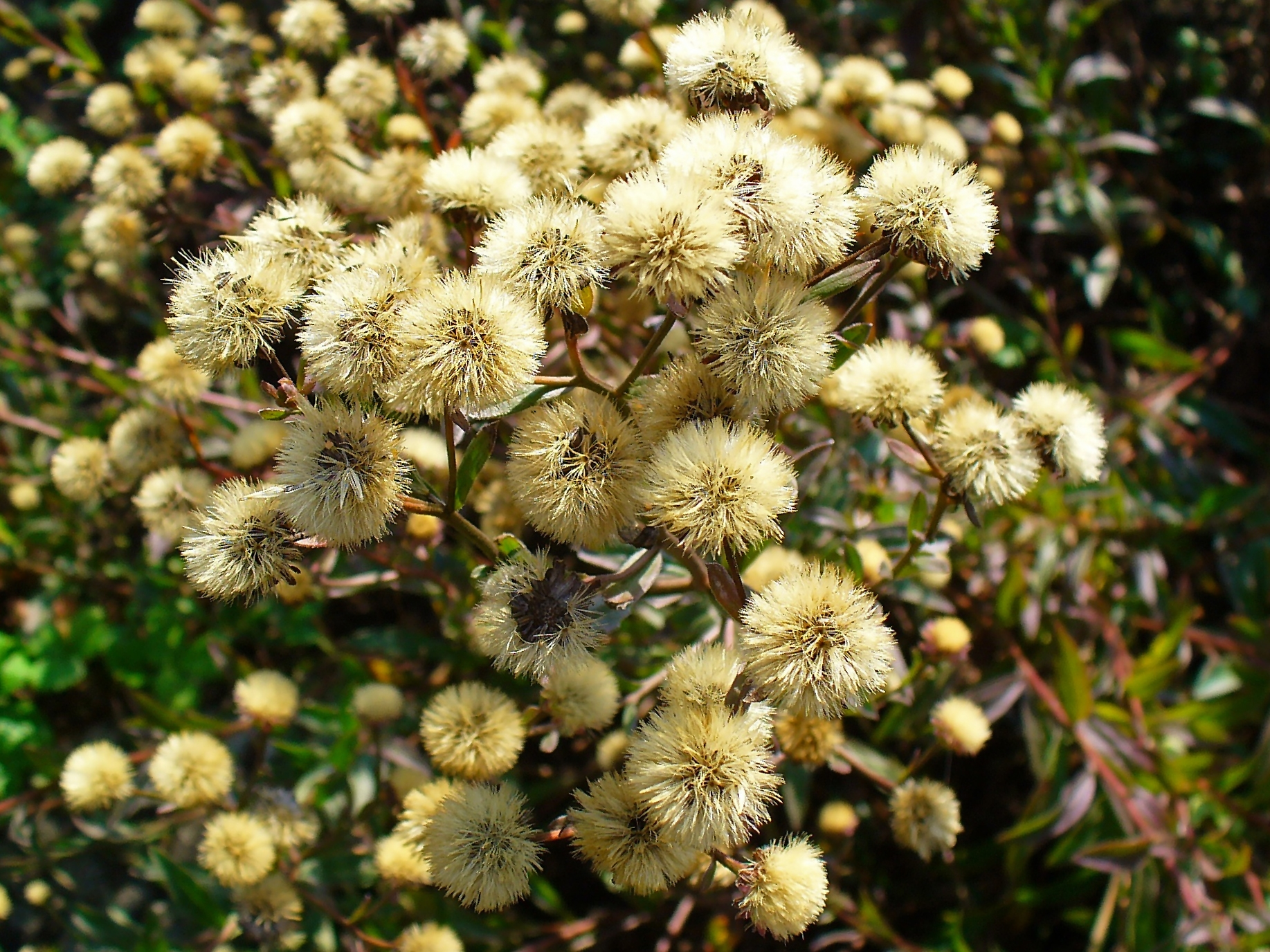 Aster amellus, Asteraceae, European Michaelmas Daisy, fruits; Botanical Garden KIT, Karlsruhe, Germany.